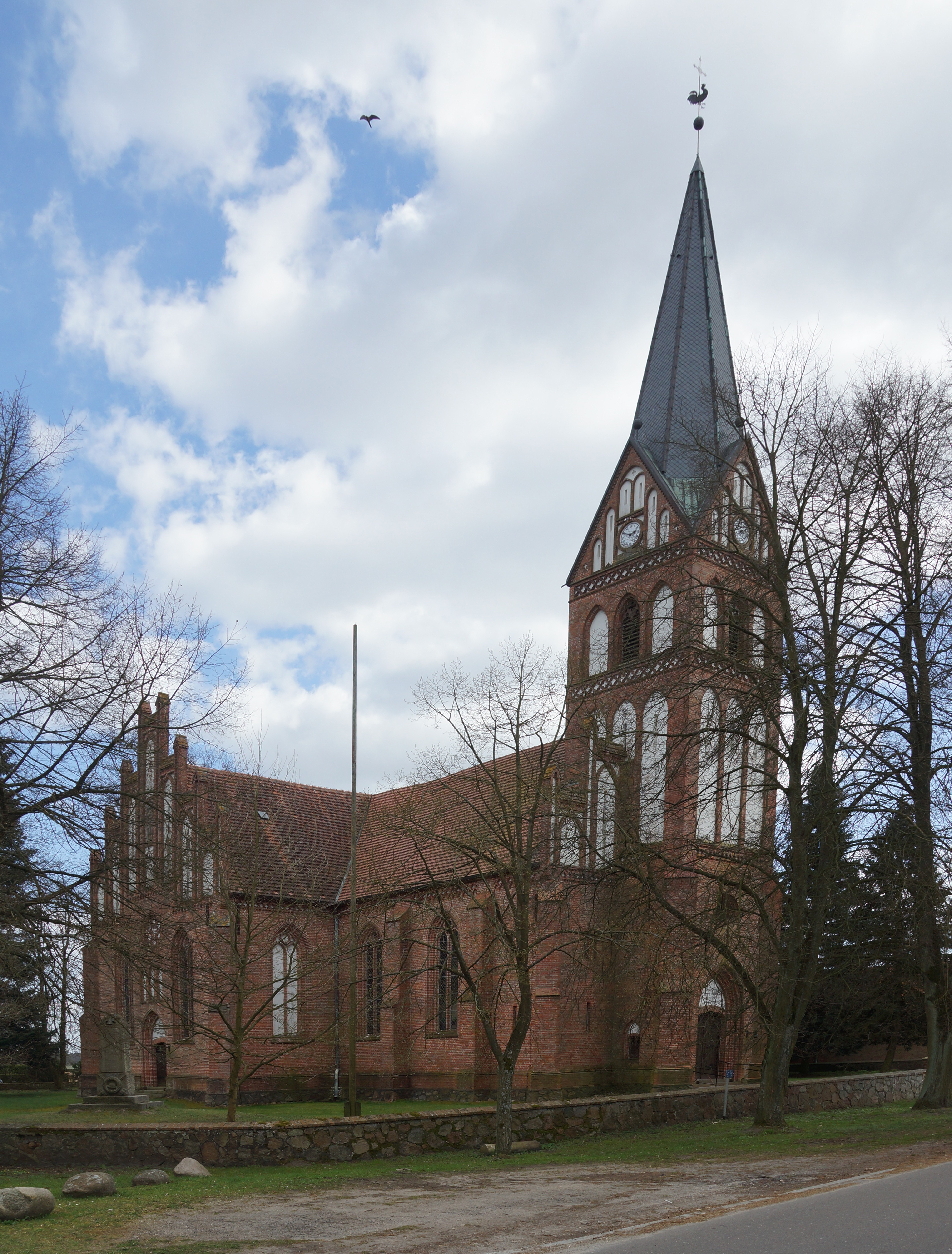 Leussow (Ludwigslust-Land), Germany: Church